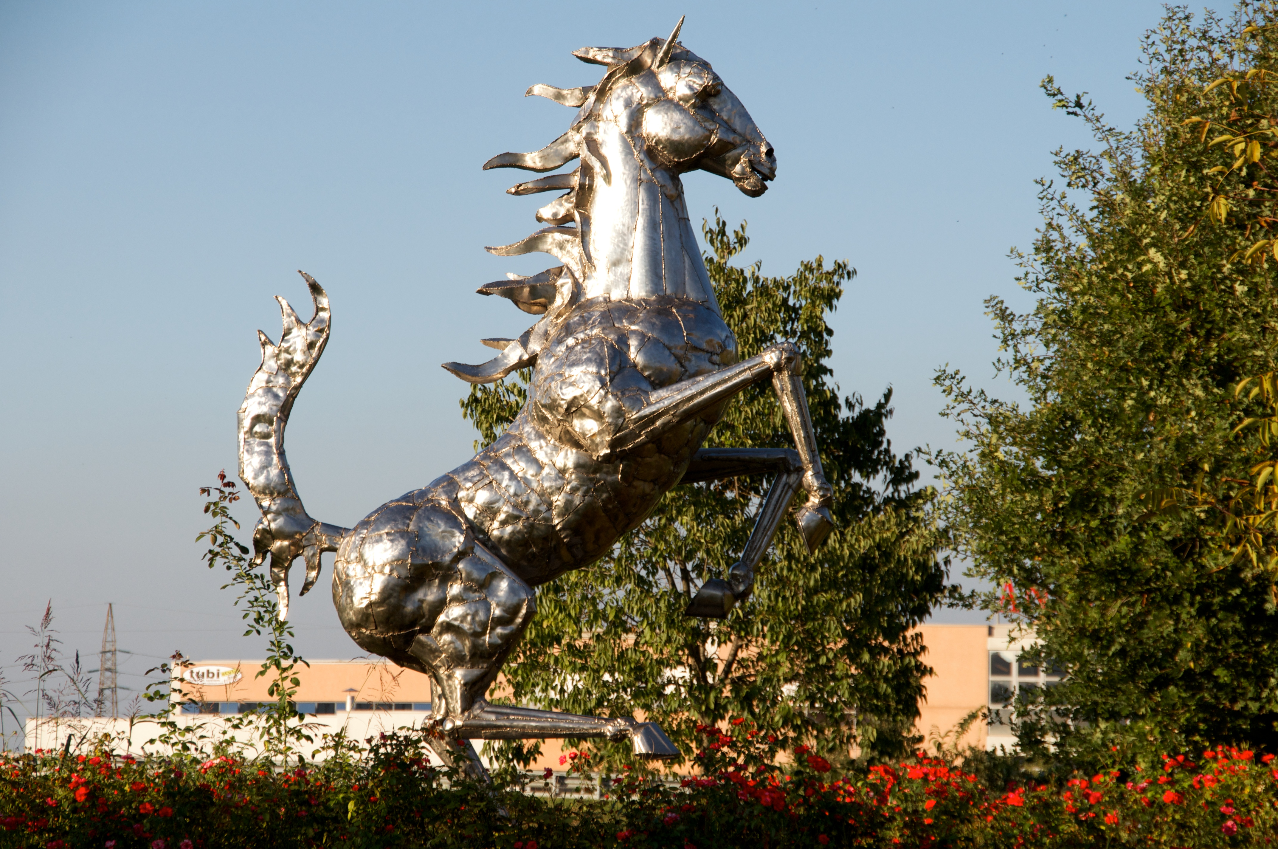 Ferrari Roundabout